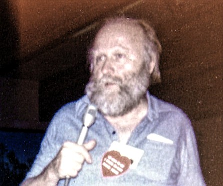 Frank Herbert (science fiction writer) at Octocon science fiction convention at the El Rancho Tropicana hotel in Santa Rosa, California, October 1978